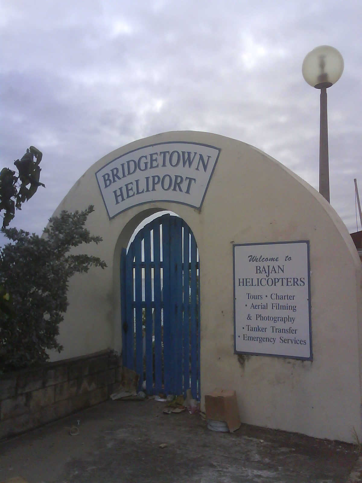 The Bridgetown Heliport at the mouth of the Careenage. (Located in the James Fort area of Bridgetown), St. Michael.